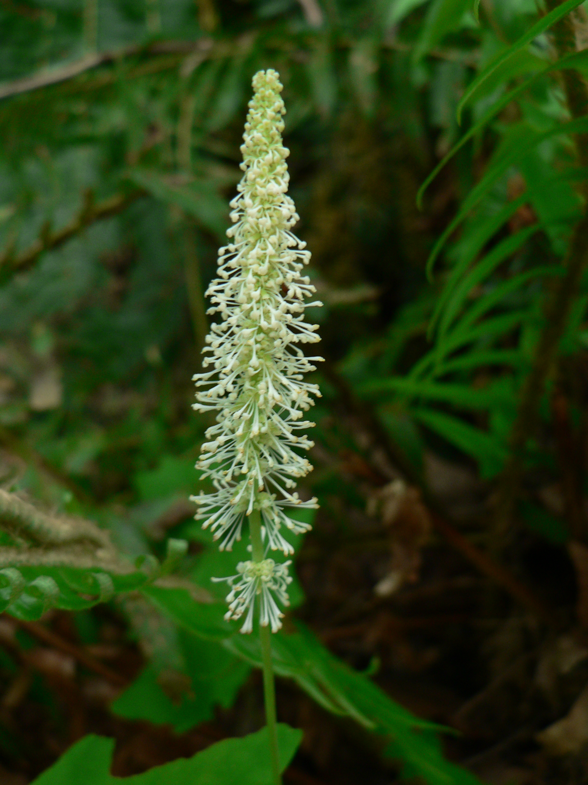 Deer-foot or vanilla-leaf